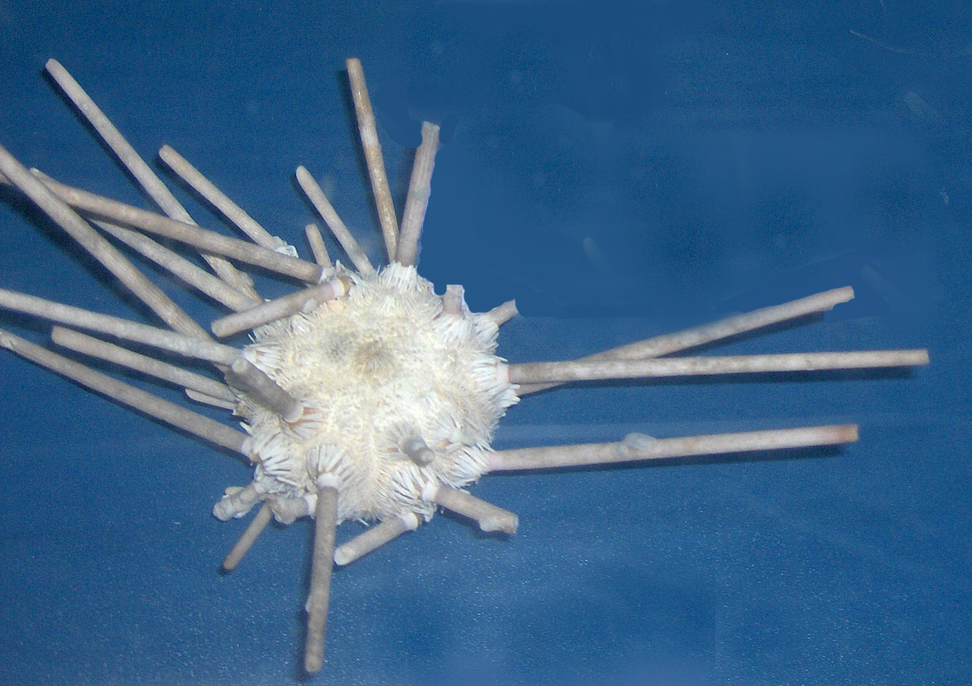 Cidaris cidaris, a pencil sea urchin from the family Cidaridae